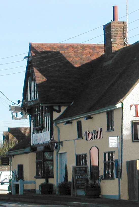 This is my own photograph taken of the Brantham Bull in November 2005